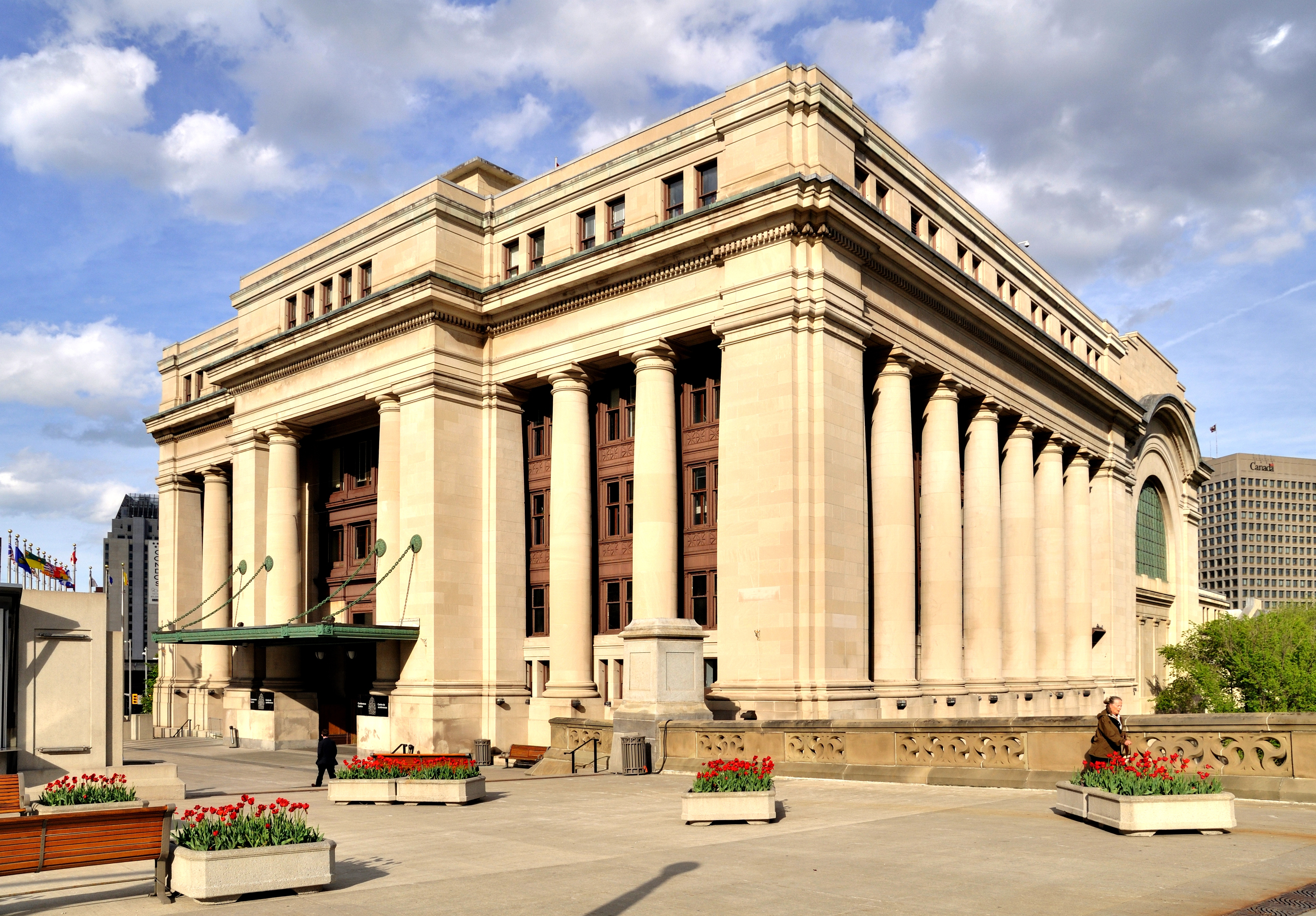 Ottawa: Government Conference Centre